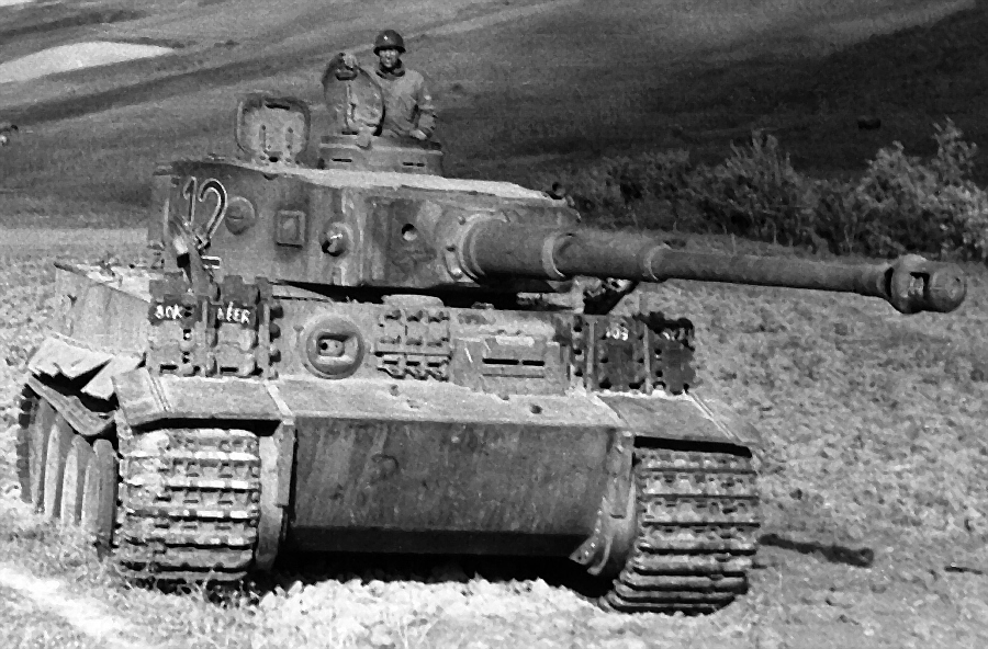 The tank is Tiger captured by Allied Forces in WWII near Tunis North Africa. MG Bennett commanded the ordinance intelligence unit, which arranged for its shipment to Aberdeen Proving Grounds, Maryland, where it resides in a museum.